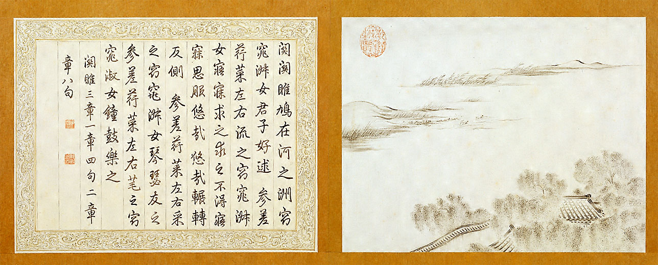 Illustrated Edition of the Book of Odes Handwritten by the Qianlong Emperor, Qing Dynasty 《御筆詩經圖》 清 高宗御筆寫本